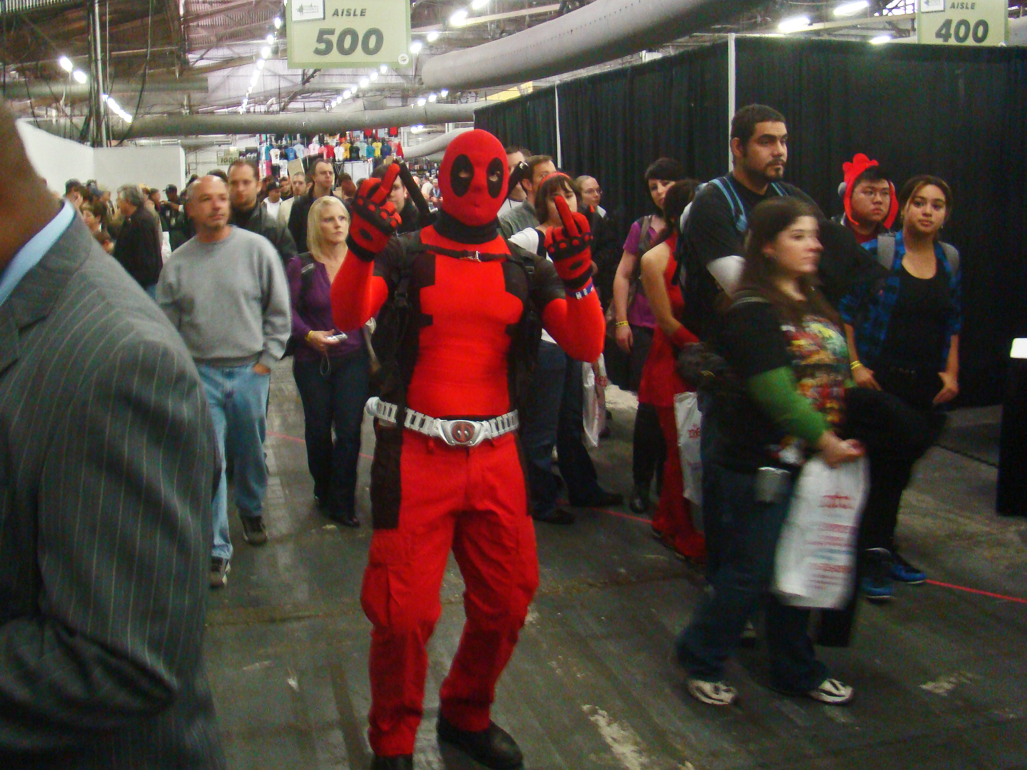 Deadpool showing off his favorite fingers, Big Apple Con, Saturday October 17, 2009. New York City.